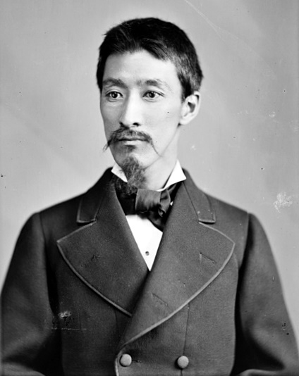 Jirō Yano, the first president of the Higher Commercial School (later renamed as the Tokyo Higher Commercial School that is the predecessor of the Tokyo University of Commerce, the current Hitotsubashi University)